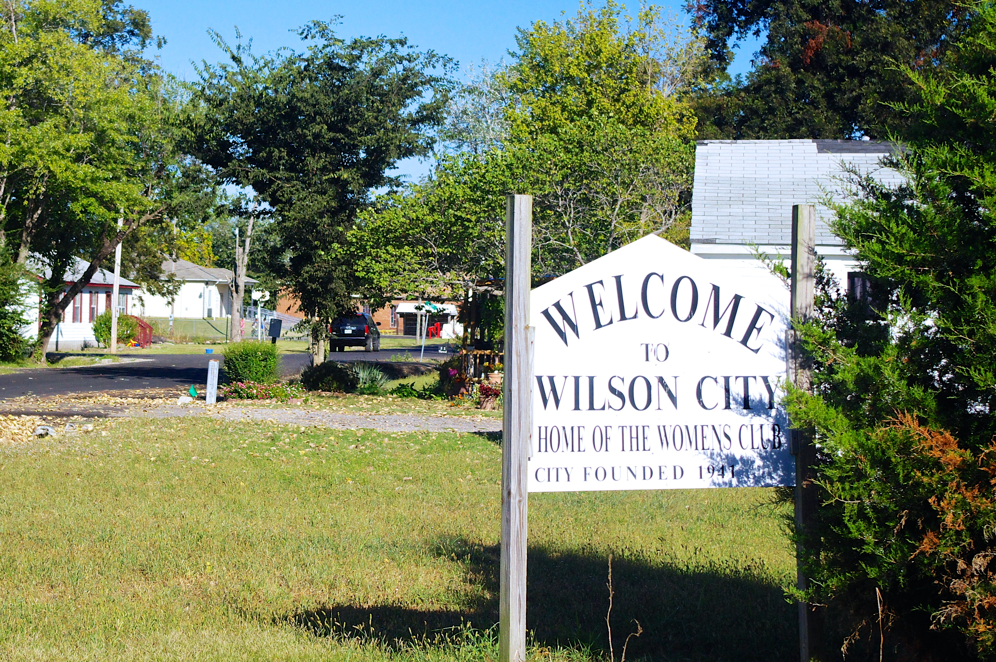 Welcome sign in Wilson City, Missouri, United States.